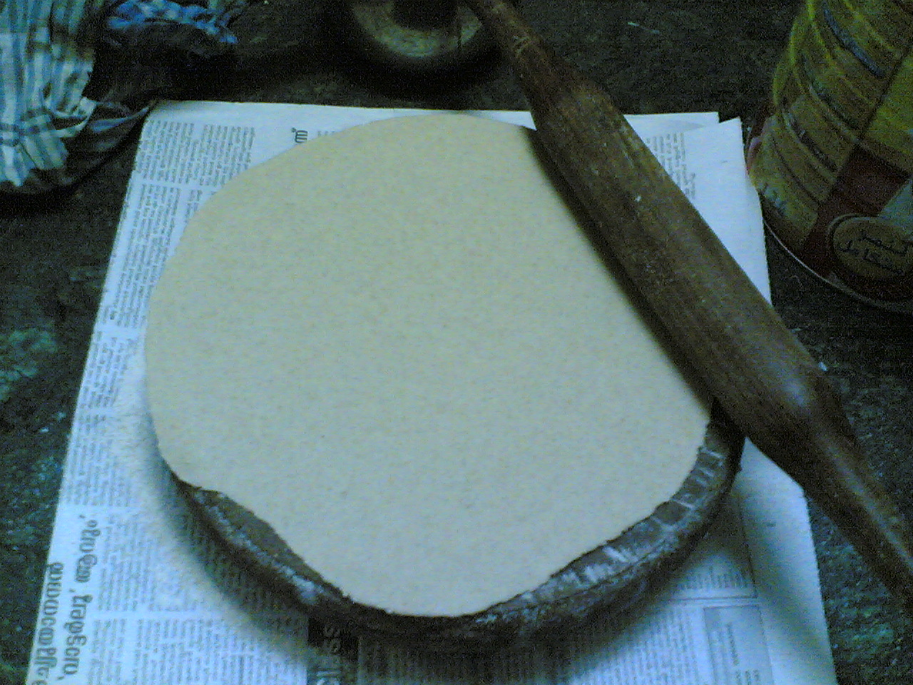 Chapati